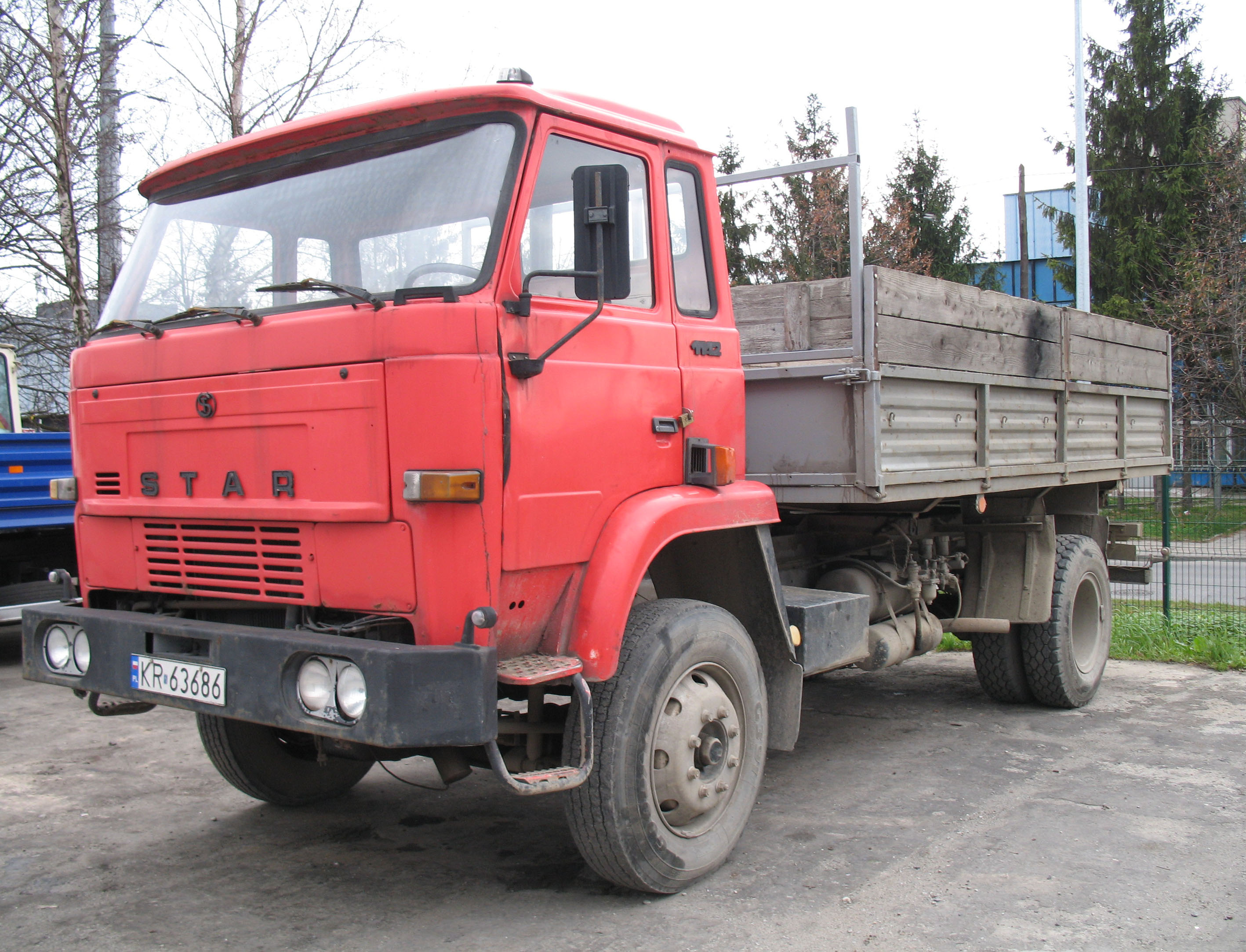 Red Star 1142 truck in Kraków, Poland.